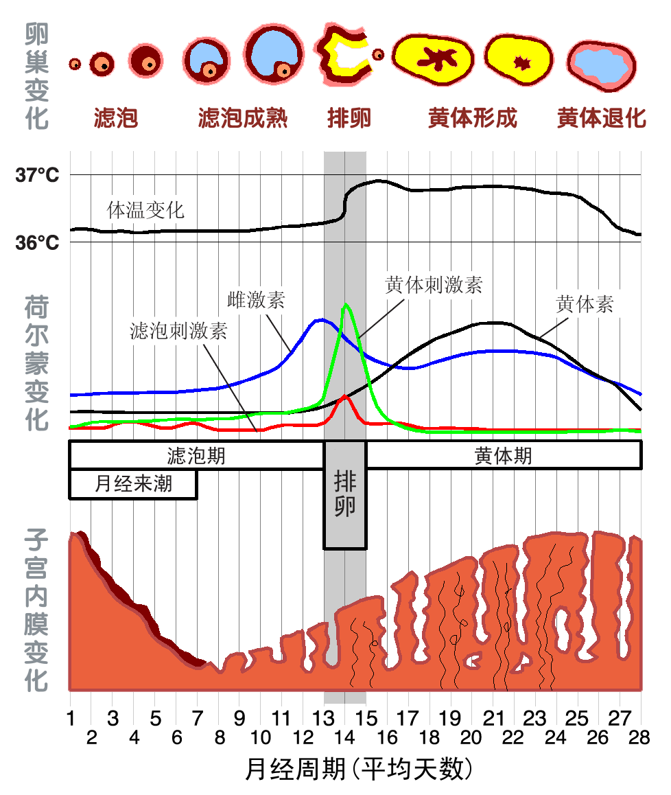 月经周期生理变化（简体中文） / Translated from zh::commons:Image:MenstrualCycle.png, original image created by zh::en:User:Chris 73 (English Wikipedia), User:KaurJmeb modify to Chinese version.User Dingar covert it to Simplified Chinese version.